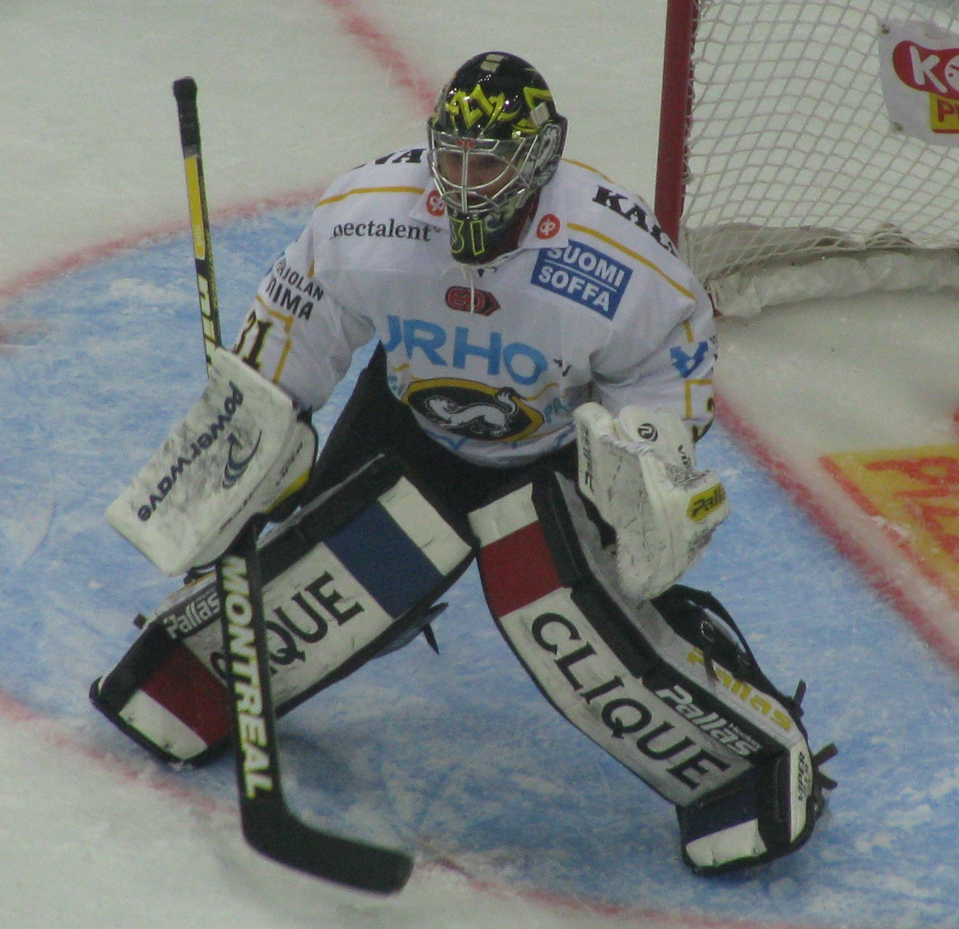 Petri Koivisto of Kärpät